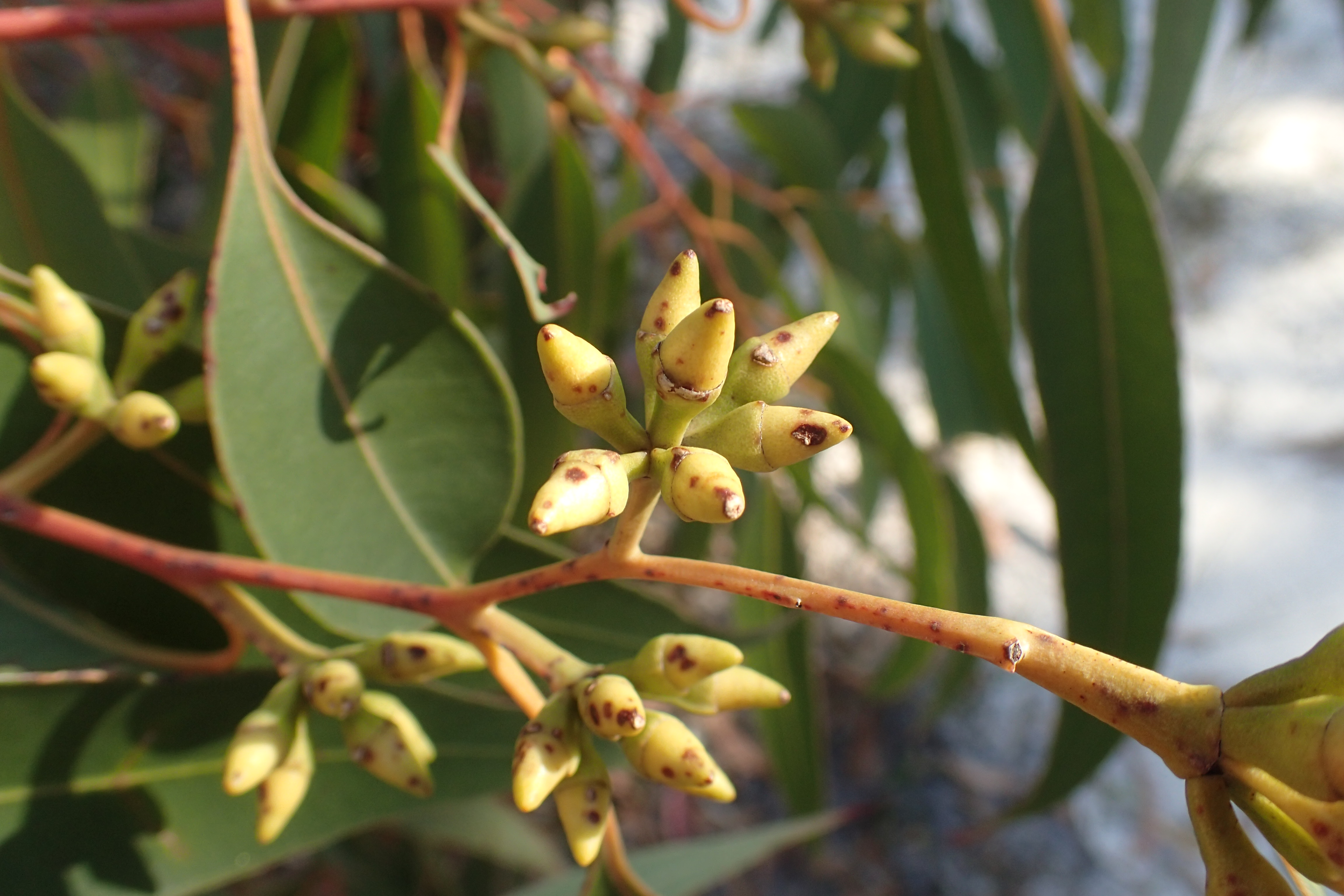 Flower buds of Eucalyptus resinifera in Helms Arboretum